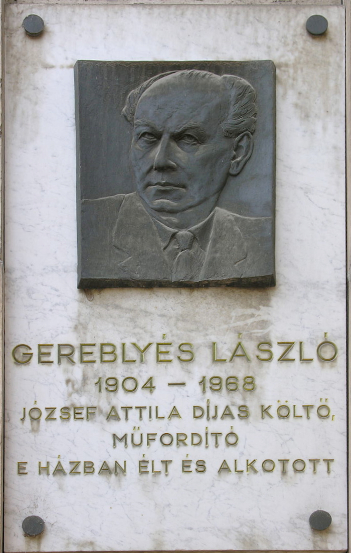 Commemorative plaque of László Gereblyés, Budapest District II, Frankel Leó Street No 96